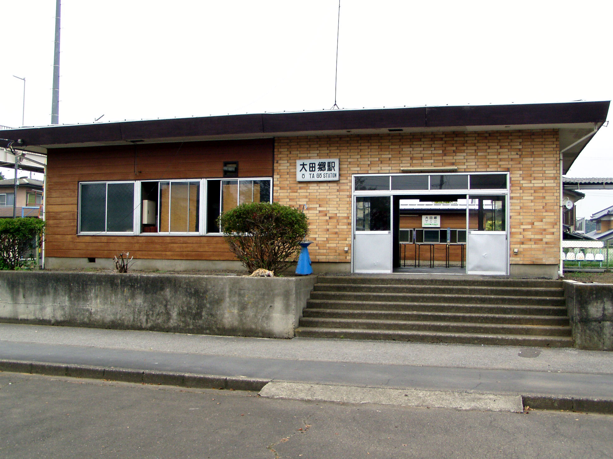 Otago station in Tamado, Chikusei city, Ibaraki prefecture, Japan.